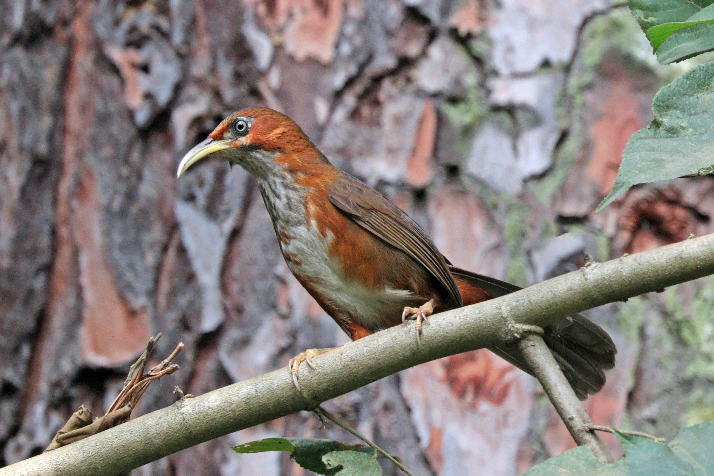 Rusty-cheeked scimitar babbler (Pomatorhinus erythrogenys ferrugilatus) Nagarjun Forest, Kathmandu, Nepal